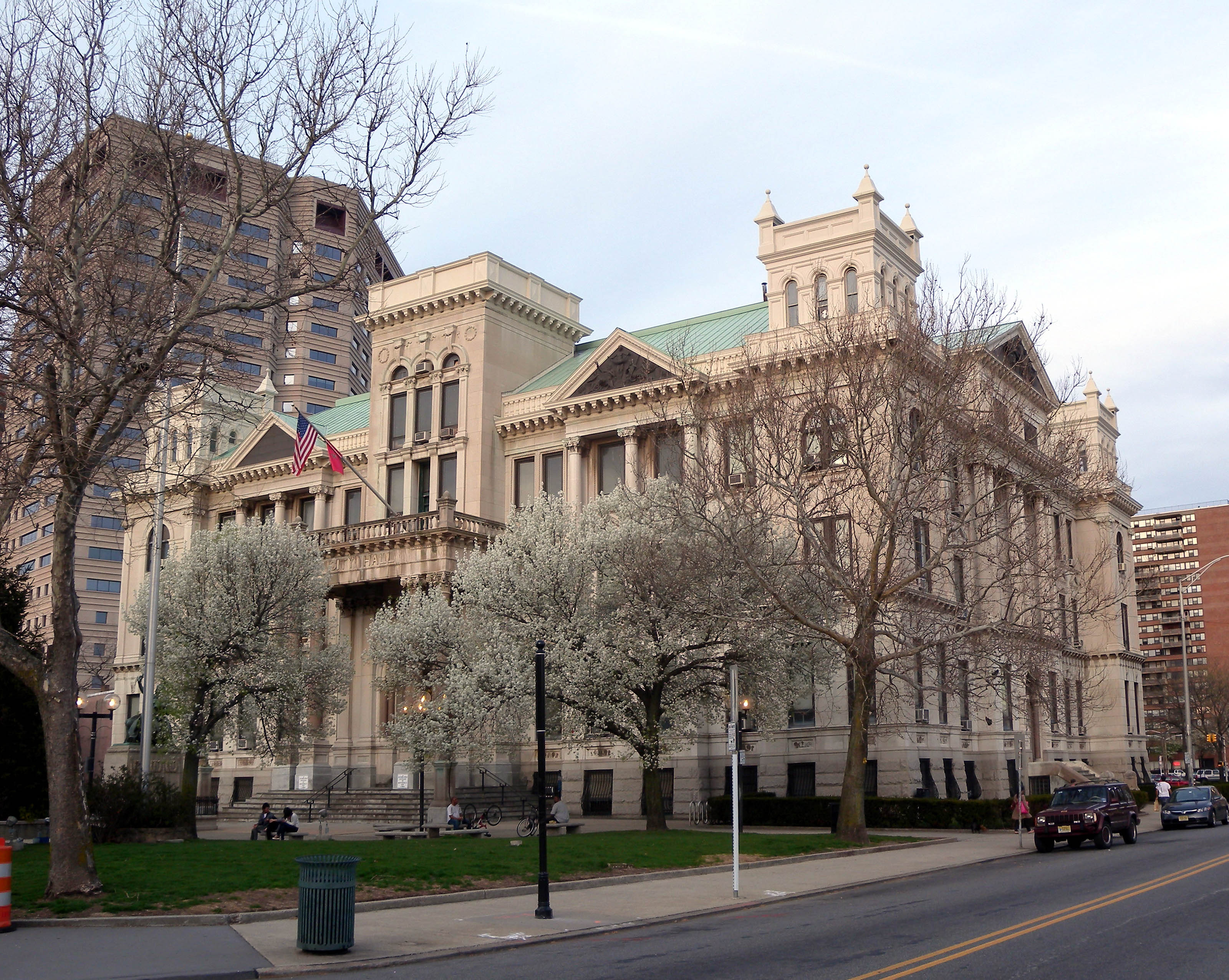 Looking northeast across Montgomery St at City Hall in the afternoon.